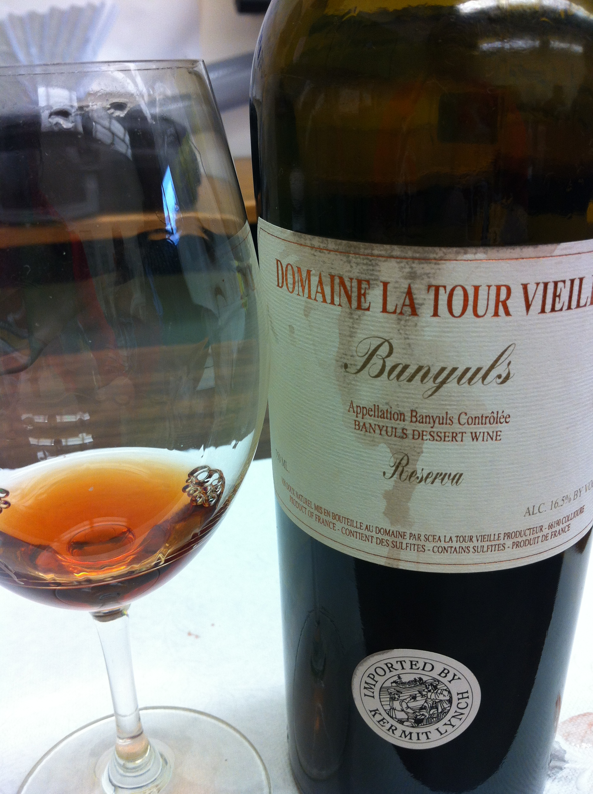 French forties wine from the Roussillon region made primarily from Grenache